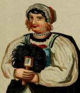 Portrait of Kornis Katalin